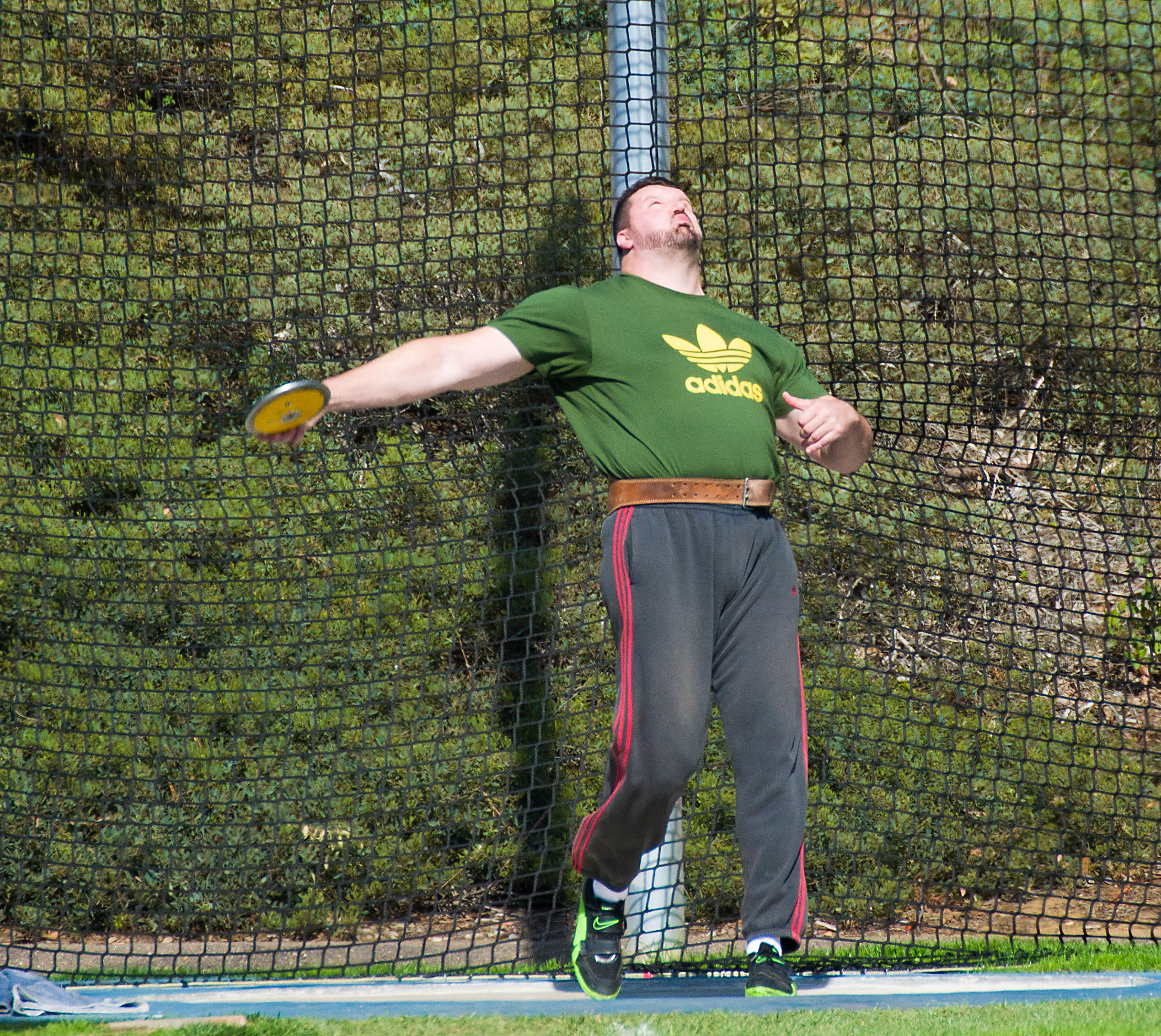 Carl Myerscough at the 2012 Triton Invitational.